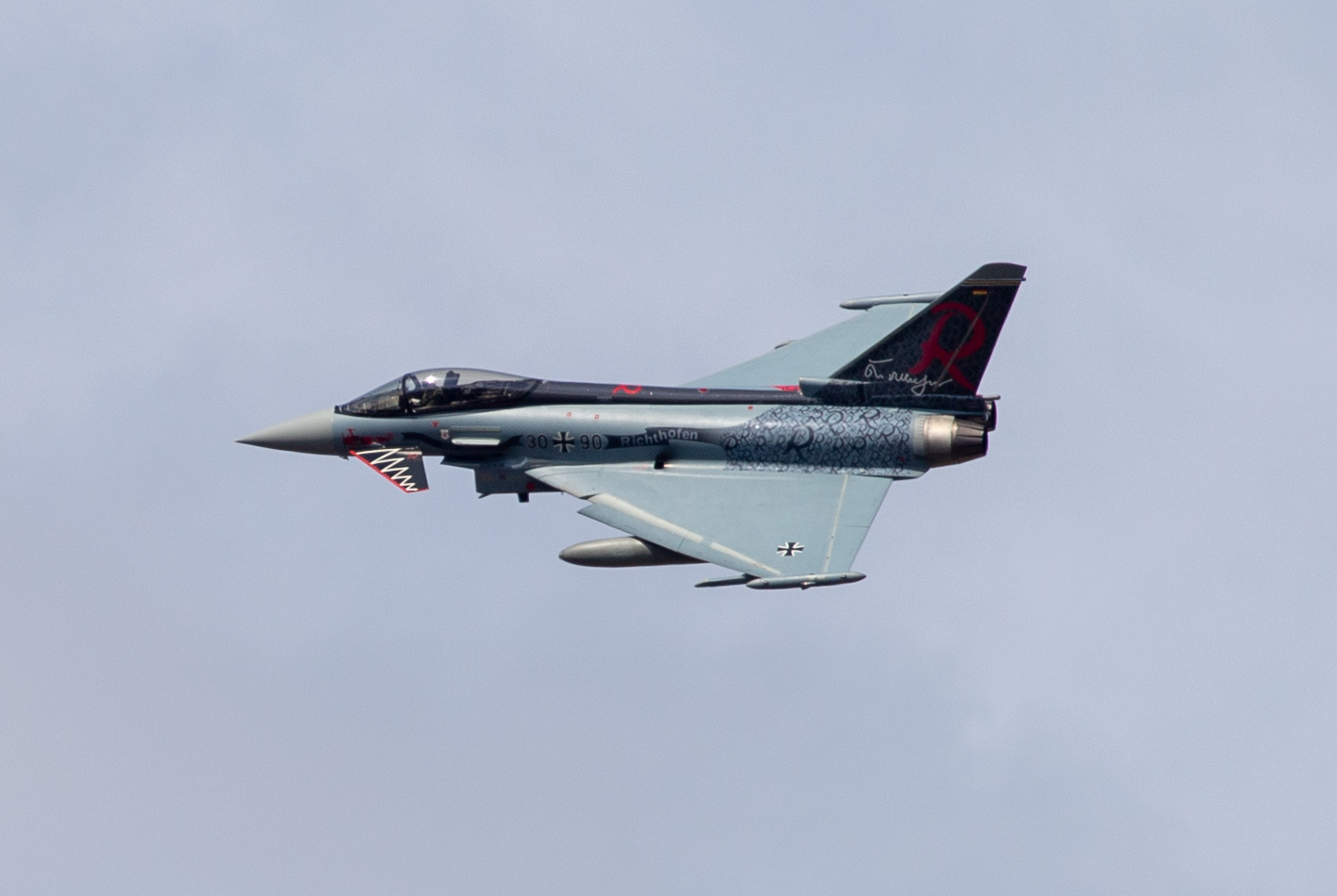 Eurofighter Typhoon Luftwaffe 30+90